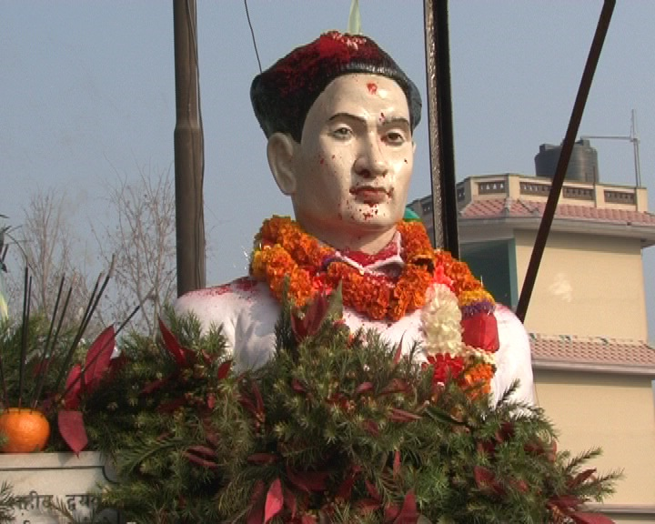 ganga lal